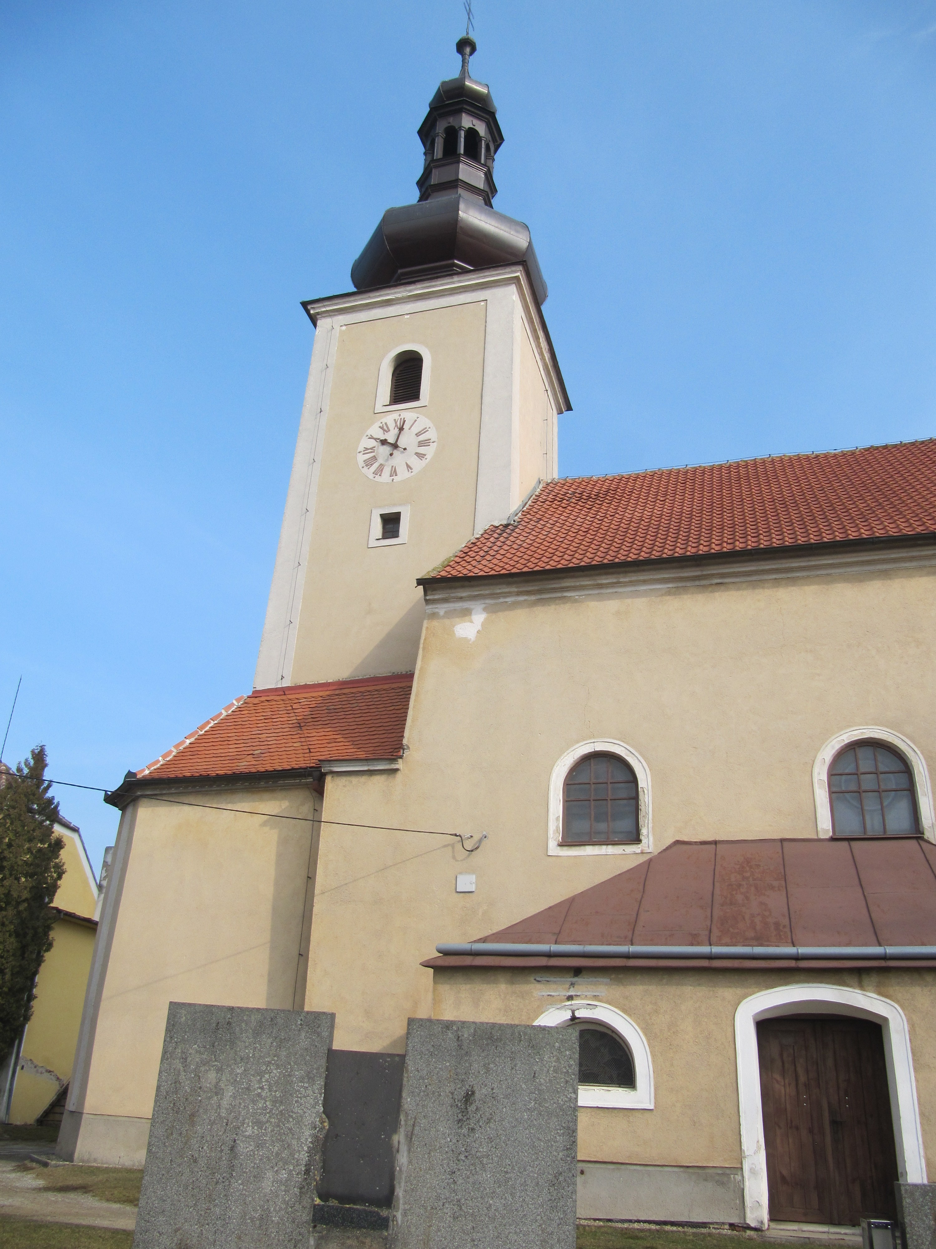 Blížkovice, Znojmo District, Czech Republic. Church of Saint Bartholomew.